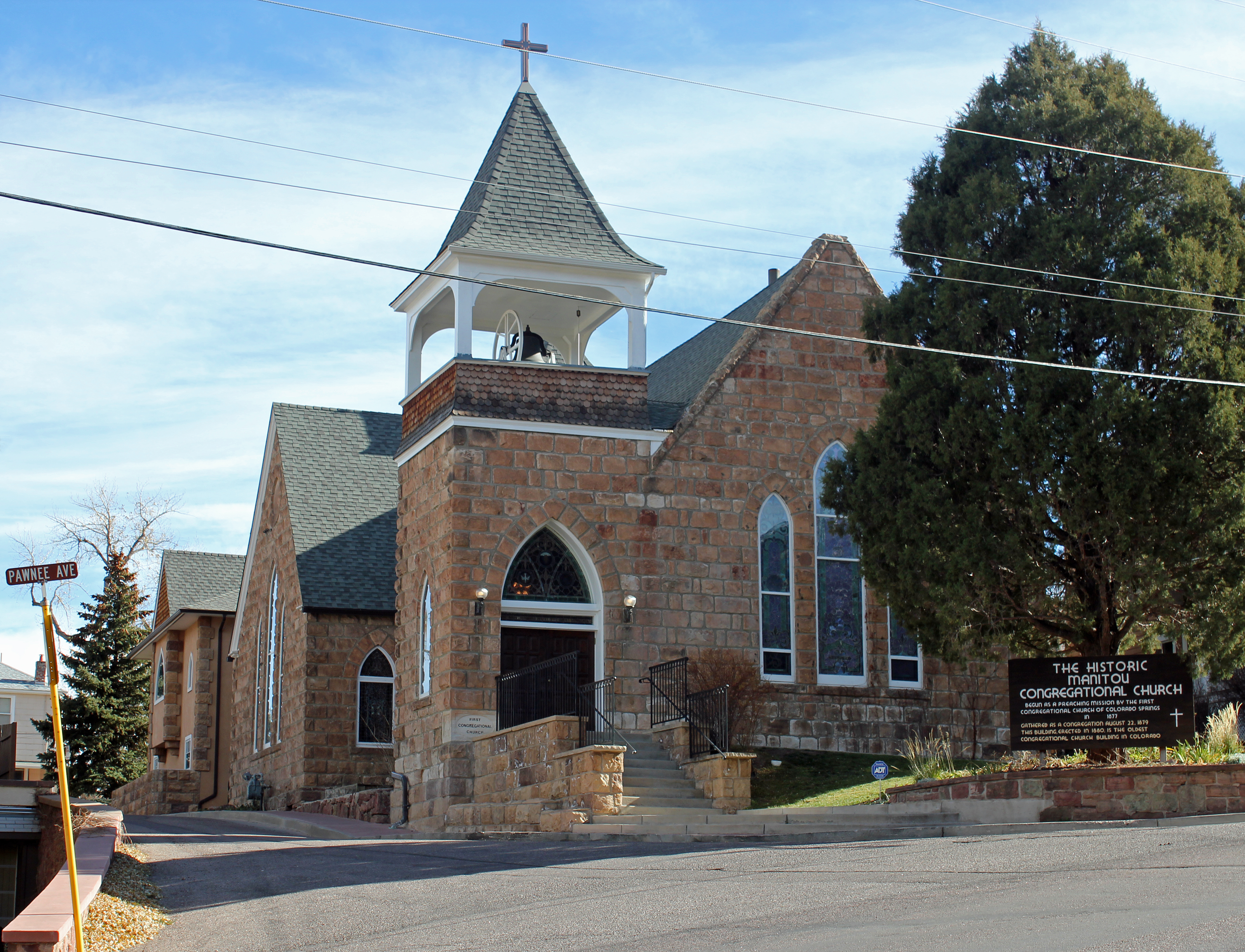 The First Congregational Church, located at 101 Pawnee Avenue in Manitou Springs, Colorado. The property is listed on the National Register of Historic Places.